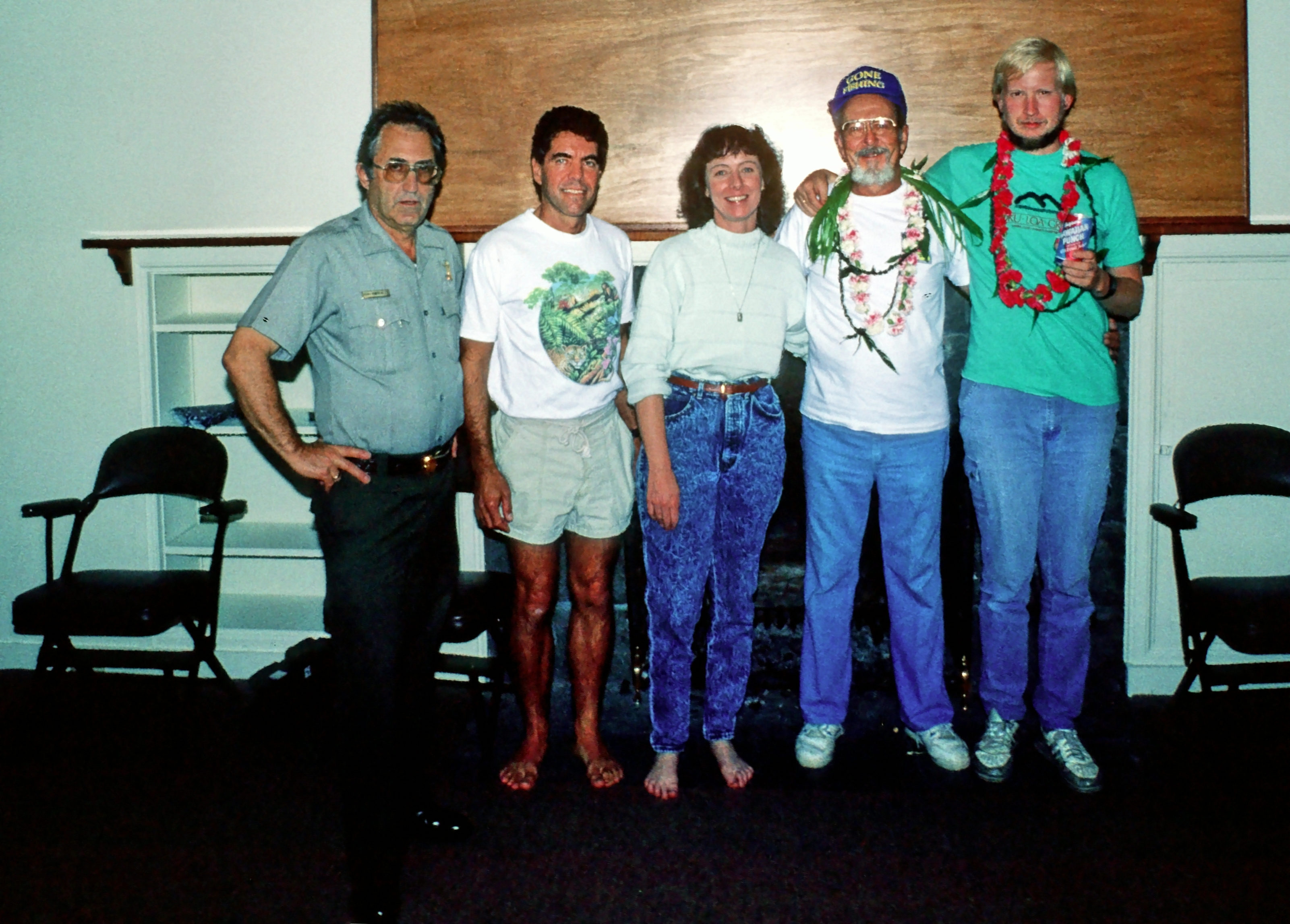 Hugo Huntzinger, Ivan Vtorov, 1990